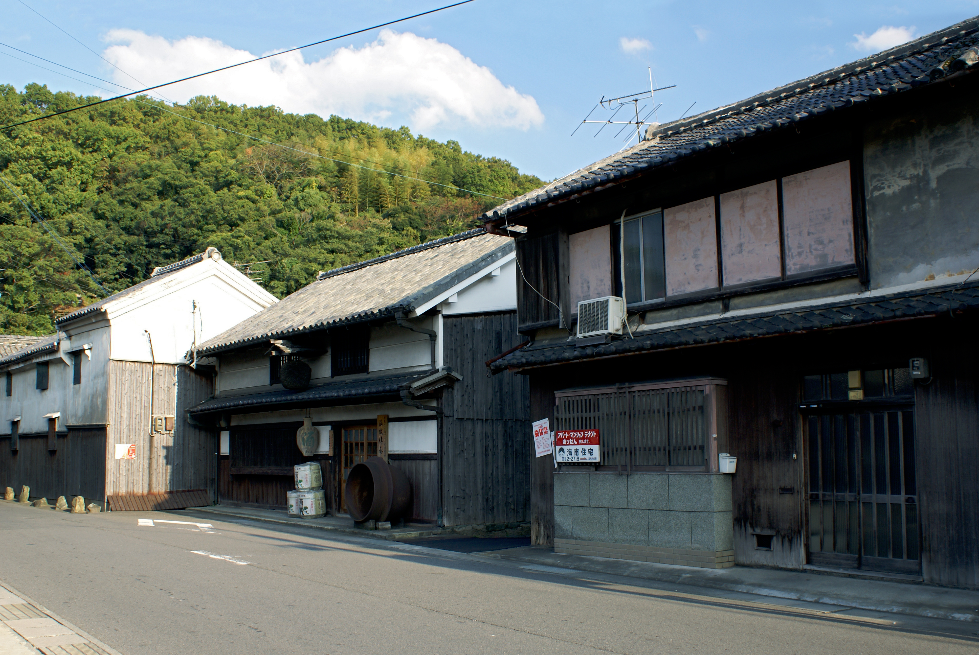 Kuroe, Kainan, Wakayama prefecture, Japan